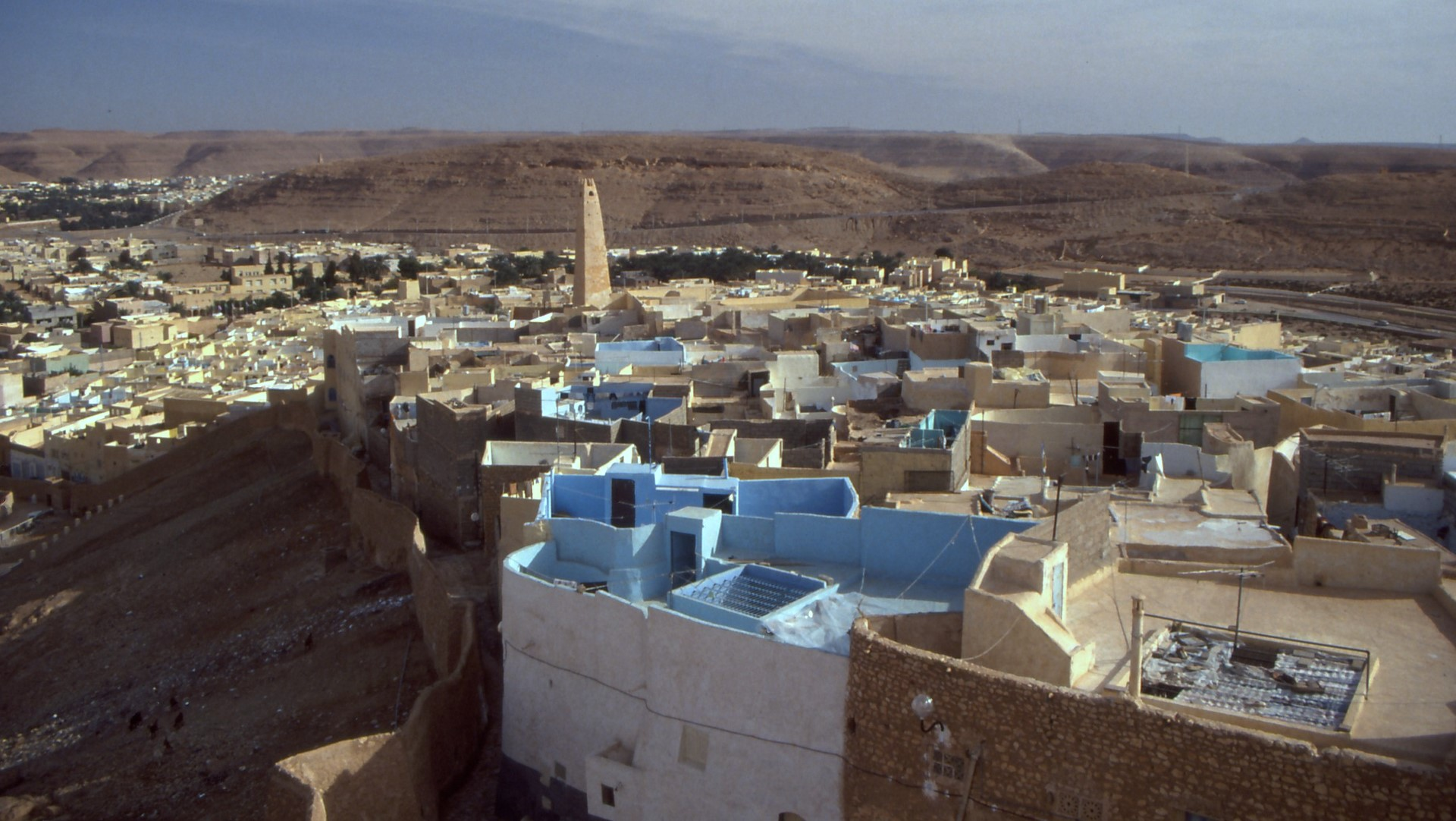 Ghardaia, Algeria